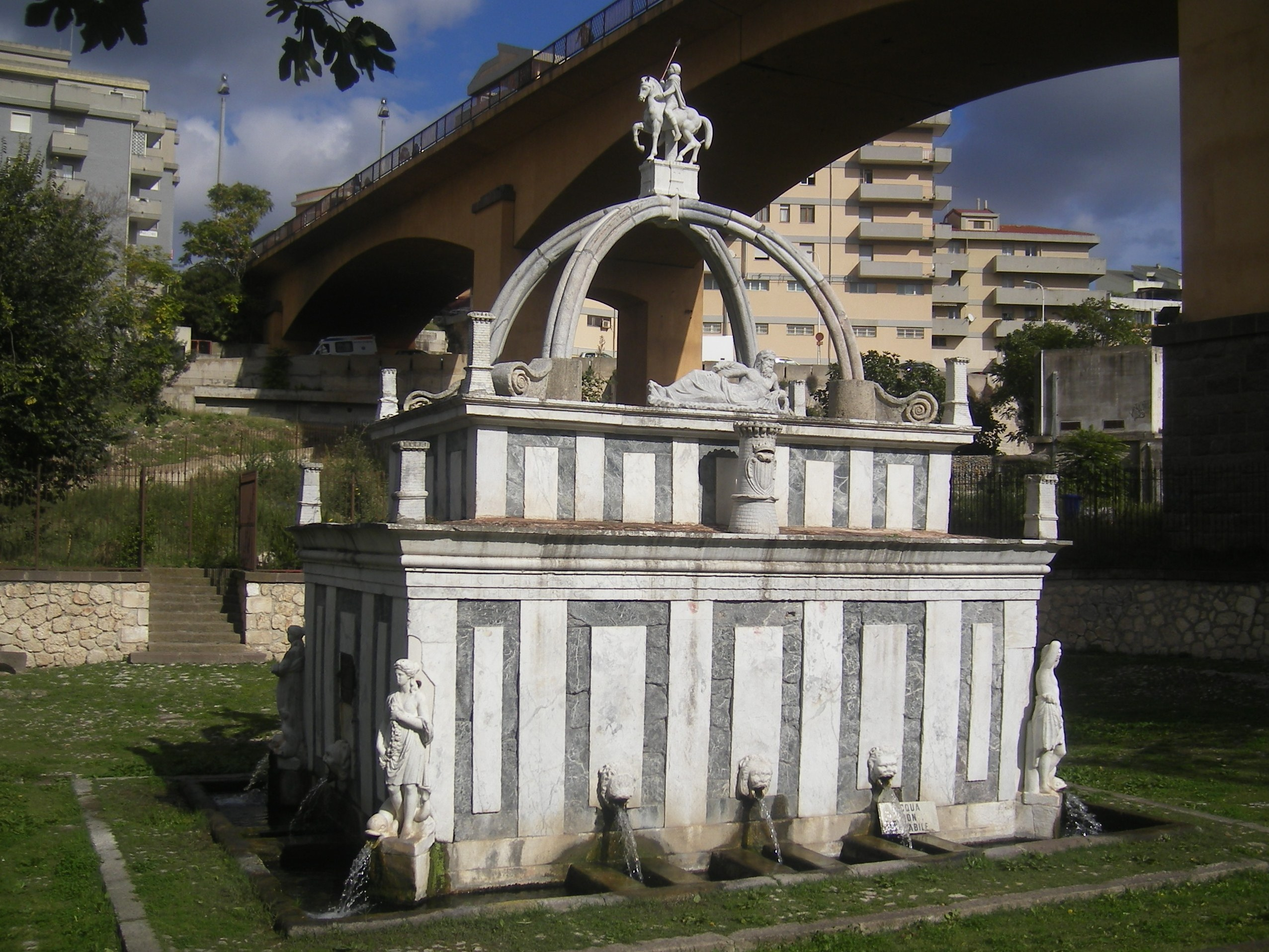 Rosello fountain in Sassari